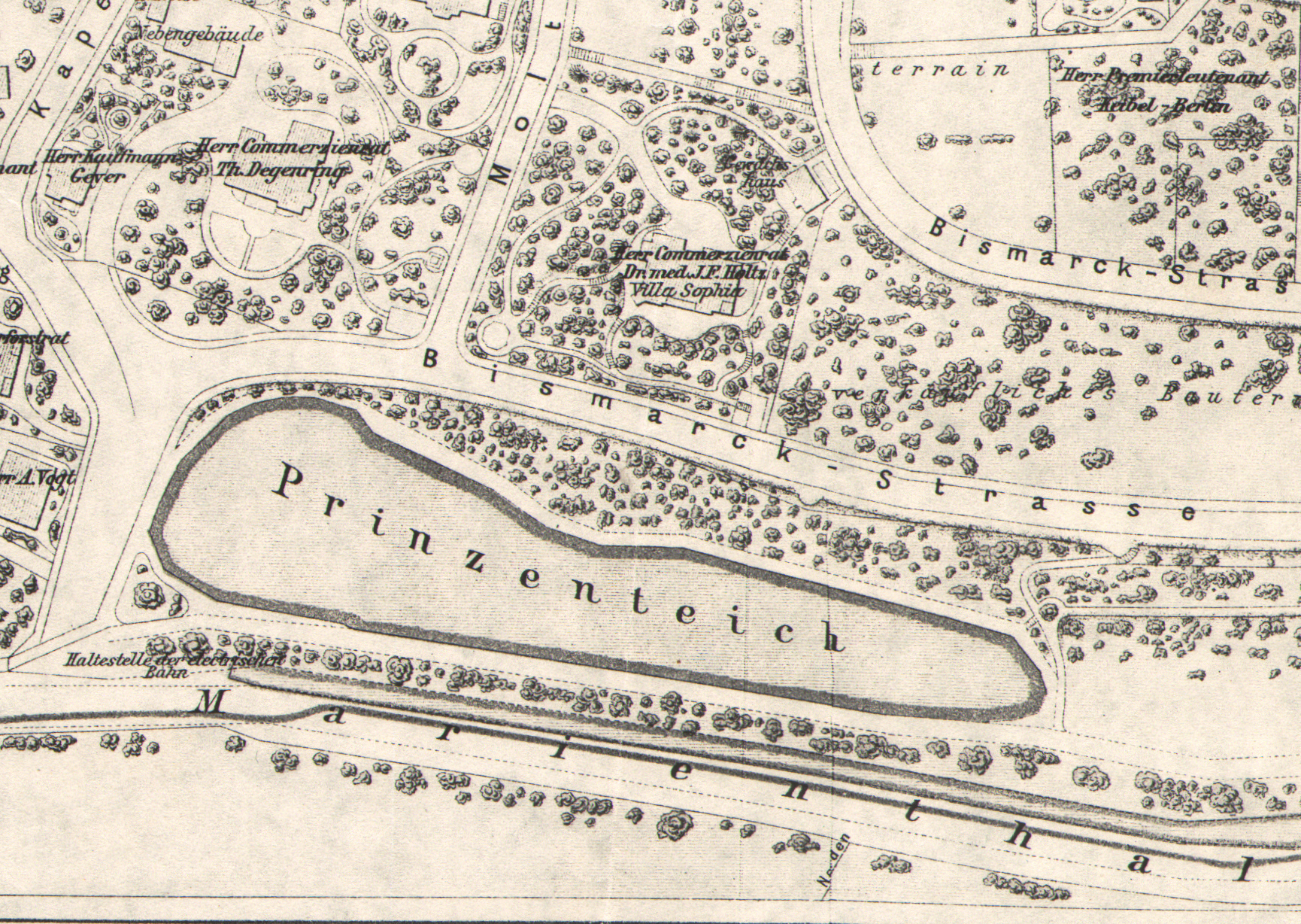 Map of the Prinzenteich, a part of the Marienhöhe settlement in Eisenach.